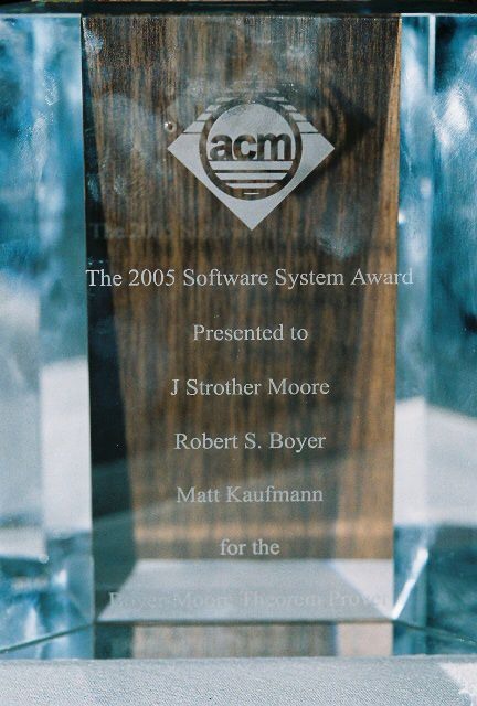 FLoC2006: ACL2 - ACM 2005 Software System Award "Presented to J Strother Moore, Robert S. Boyer, Matt Kaufmann for the Boyer-Moore Theorem Prover" Photographer's description: The award is solid leaded glass. I placed a box (from one of the special congratulations award) behind the glass so that the etching would stand out. It looks like it commemorates the finger prints of all of us who tested the weight of the crystal.